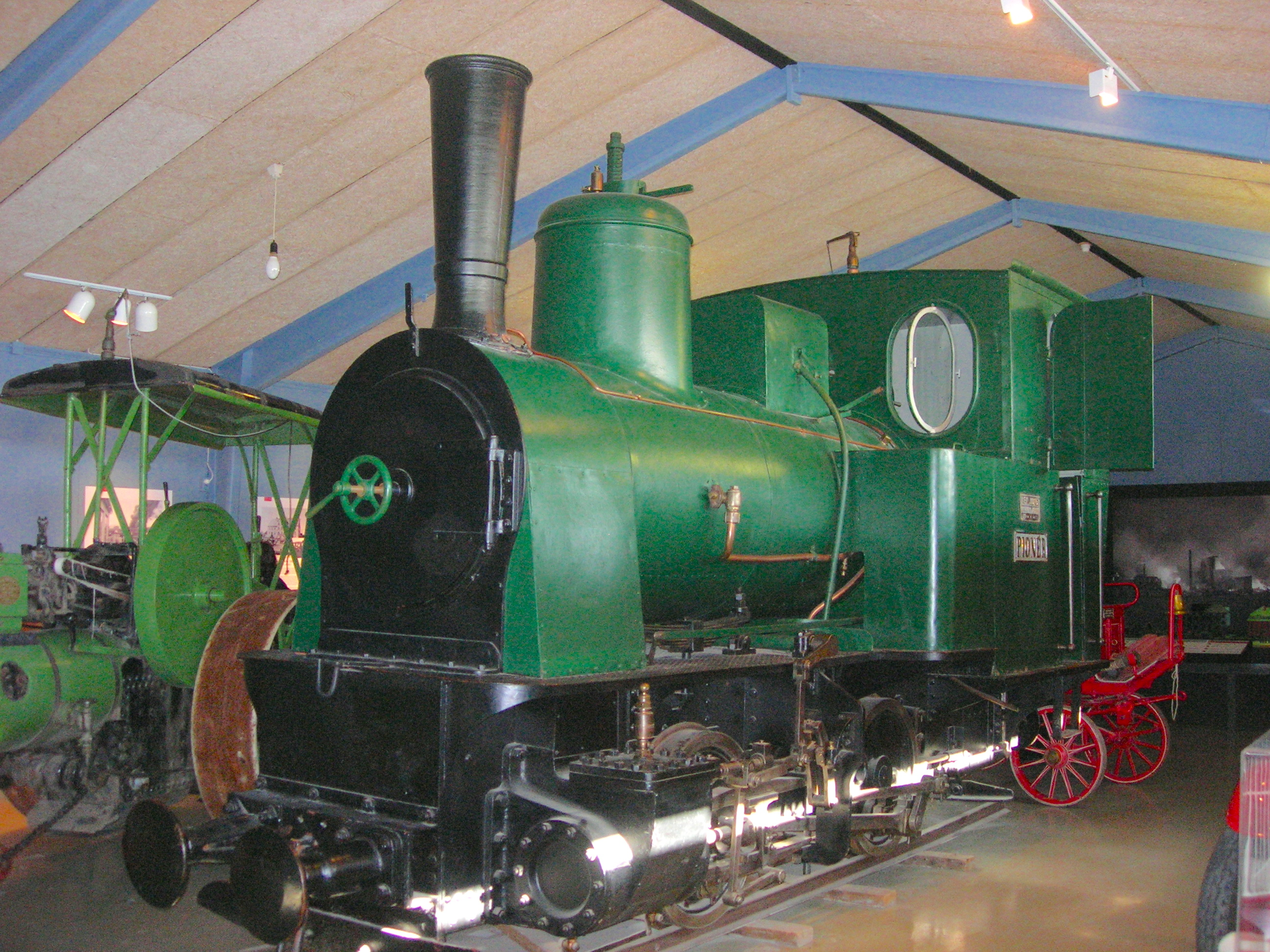 Photograph of preserved Reykjavic Harbour Railway locomotive Pioner at the Arbr Folk Museum. An image of the sister engine may be found at RHR-Minor.JPG on this project.